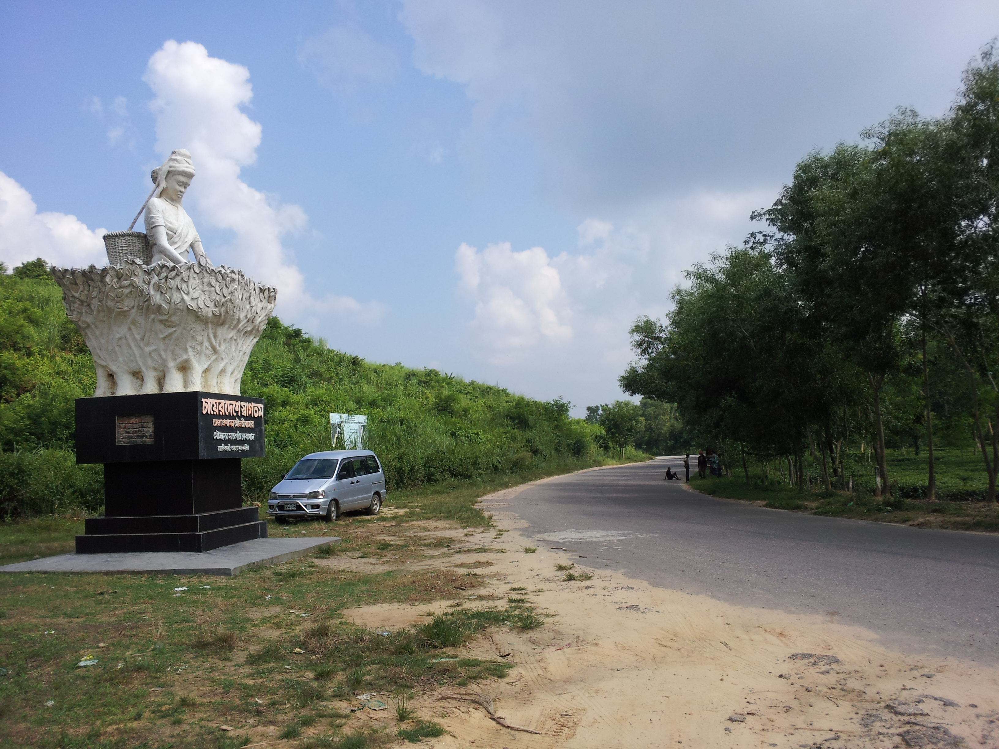 A sculpture of a girl (Cha Konna or Tea Bride) plucking tea leaves in a tea garden, located in Satgaon Tea Garden, Srimangal, Moulvibazar District, Bangladesh